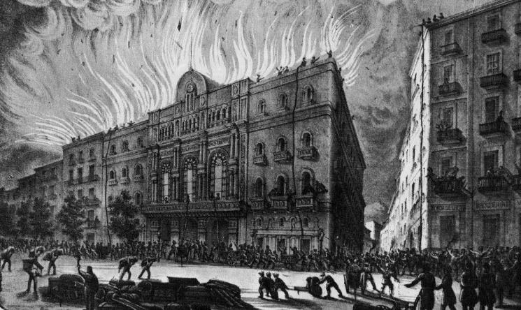 Fire of the Liceu Theater, at Barcelona, 1861.